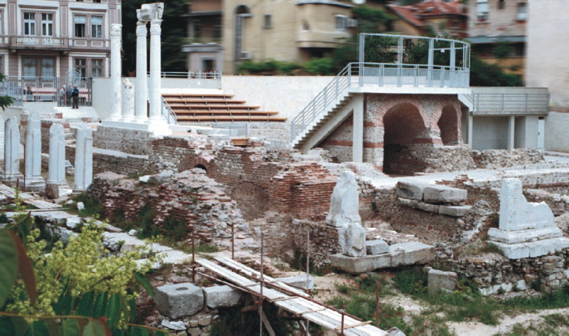 The Odeon of Plovdiv